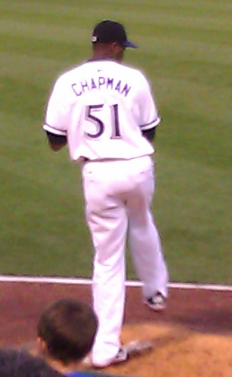 Aroldis Chapman